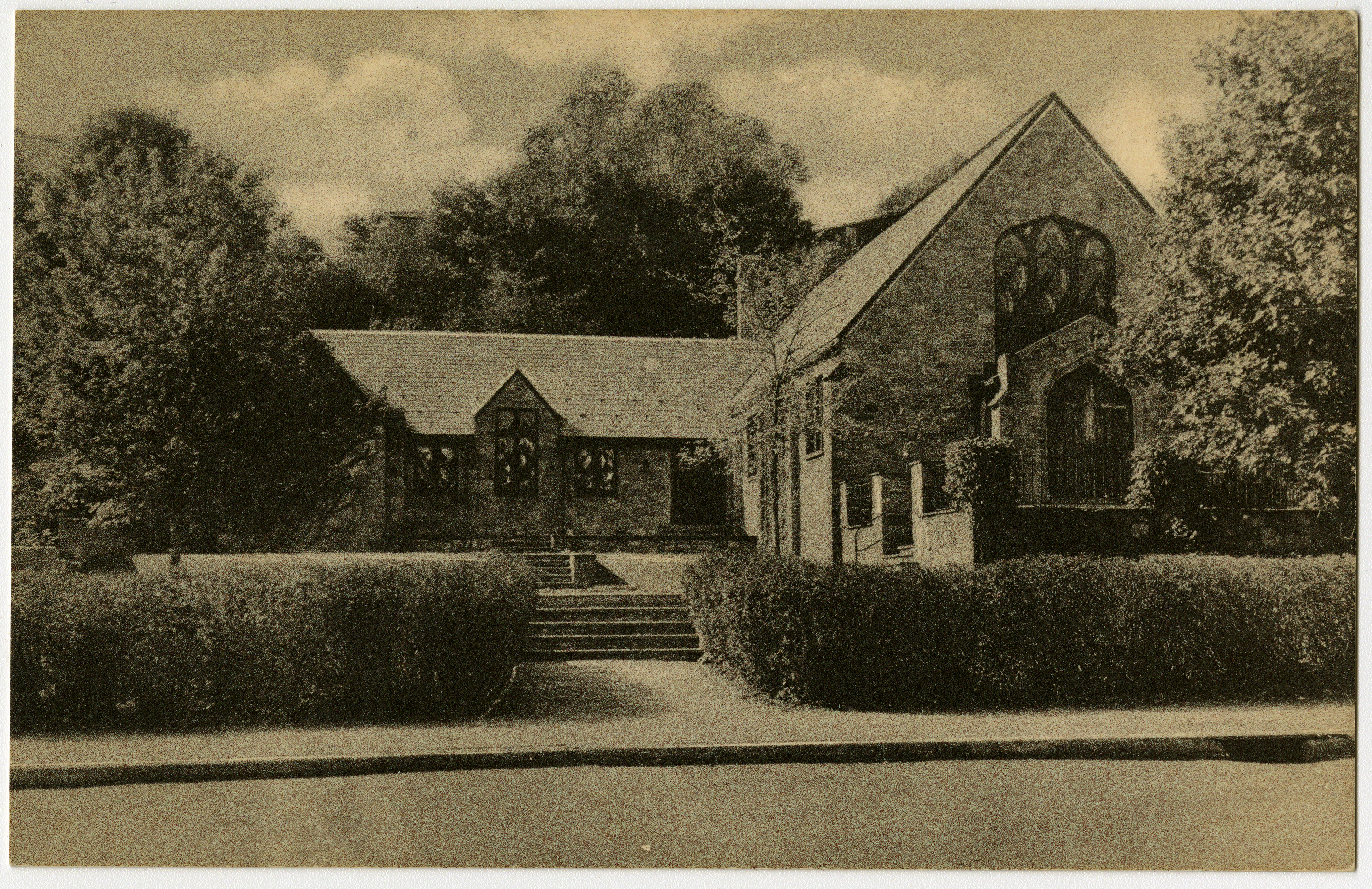 First Presbyterian Church in Ashland, Pennsylvania on a pre-1923 postcard. From RG 428, Postcard Collection, Presbyterian Historical Society, Philadelphia, Pennsylvania. This church appears to now be called the Methodist Presbyterian Church, located on 9th Street at Arch Street, near the post office in Ashland, PA